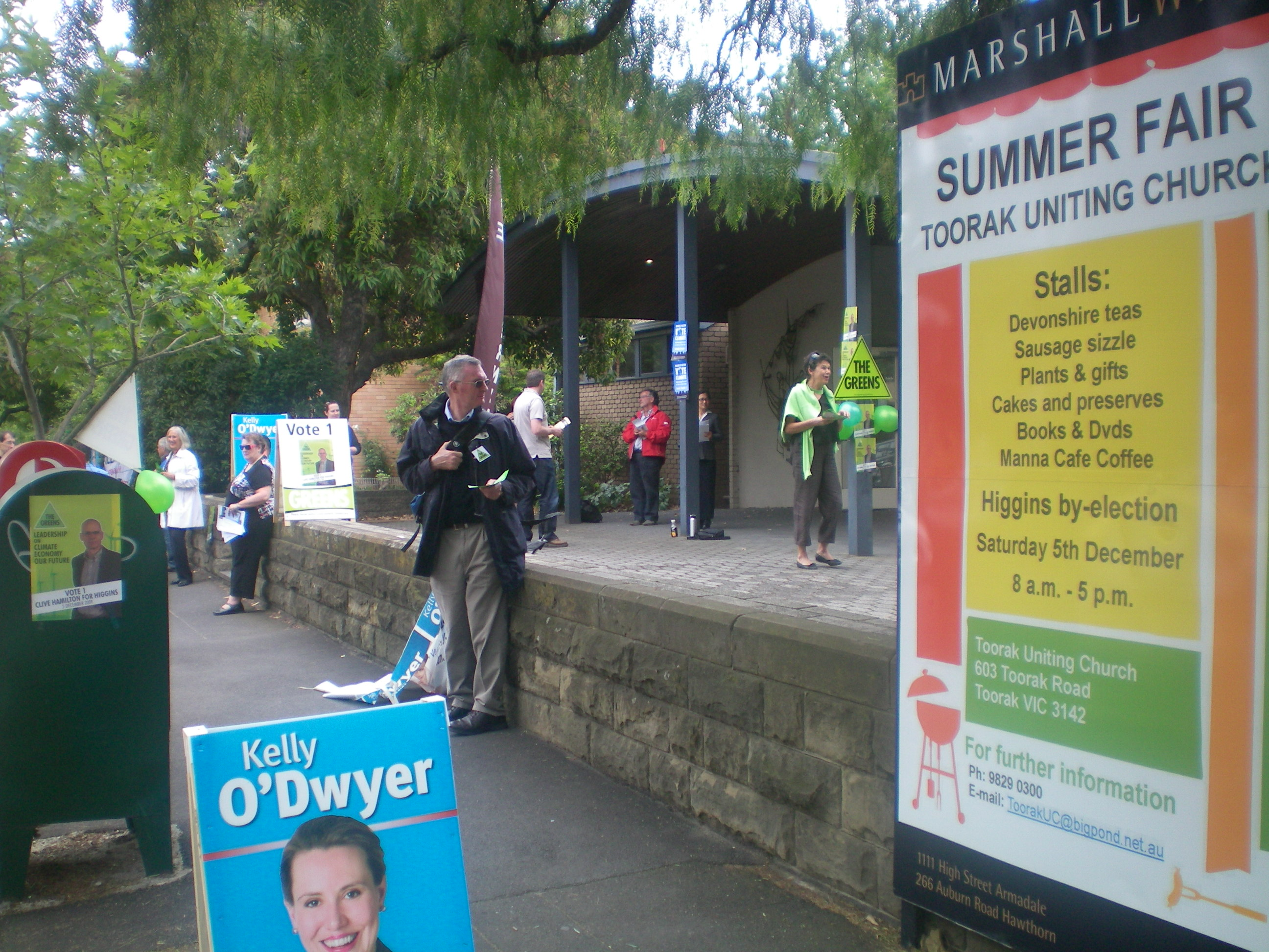 A polling station for the 2009 by-election in the Melbourne suburb of Toorak.